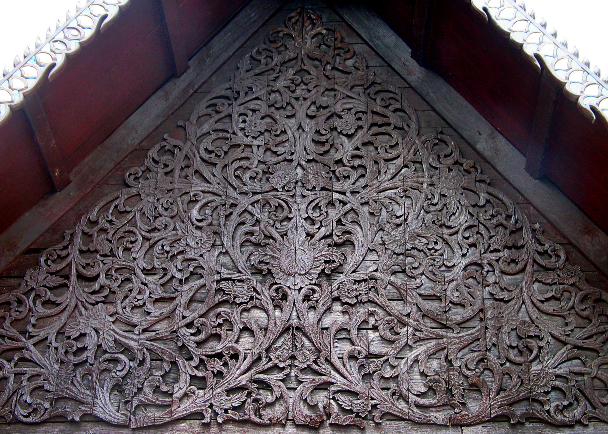 Wat Chet Yot, buddhist temple in Chiang Mai, northern Thailand